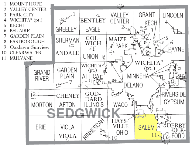 Map of Sedgwick County, Kansas highlighting Salem Township